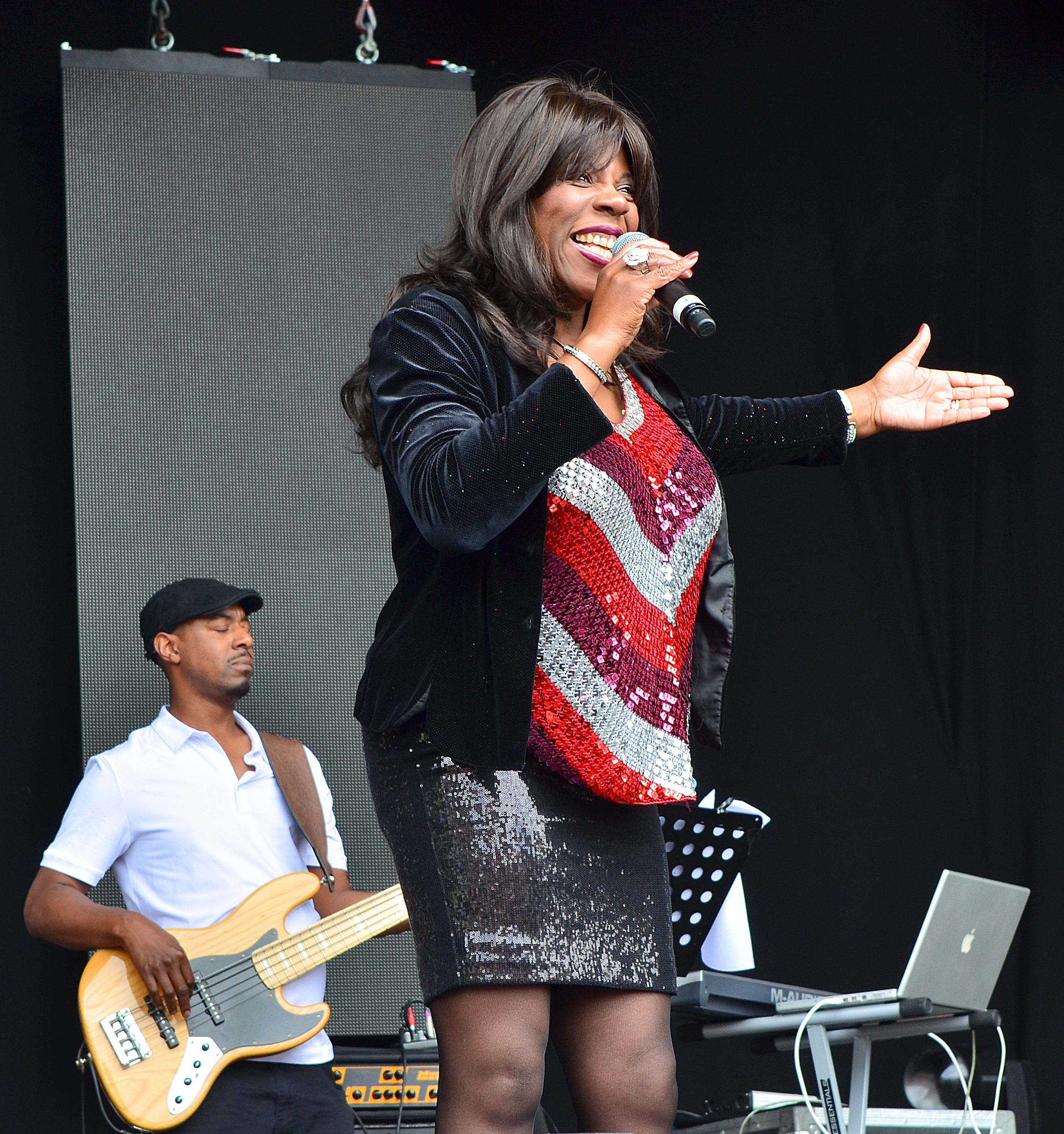 Jaki Graham performing in 2014